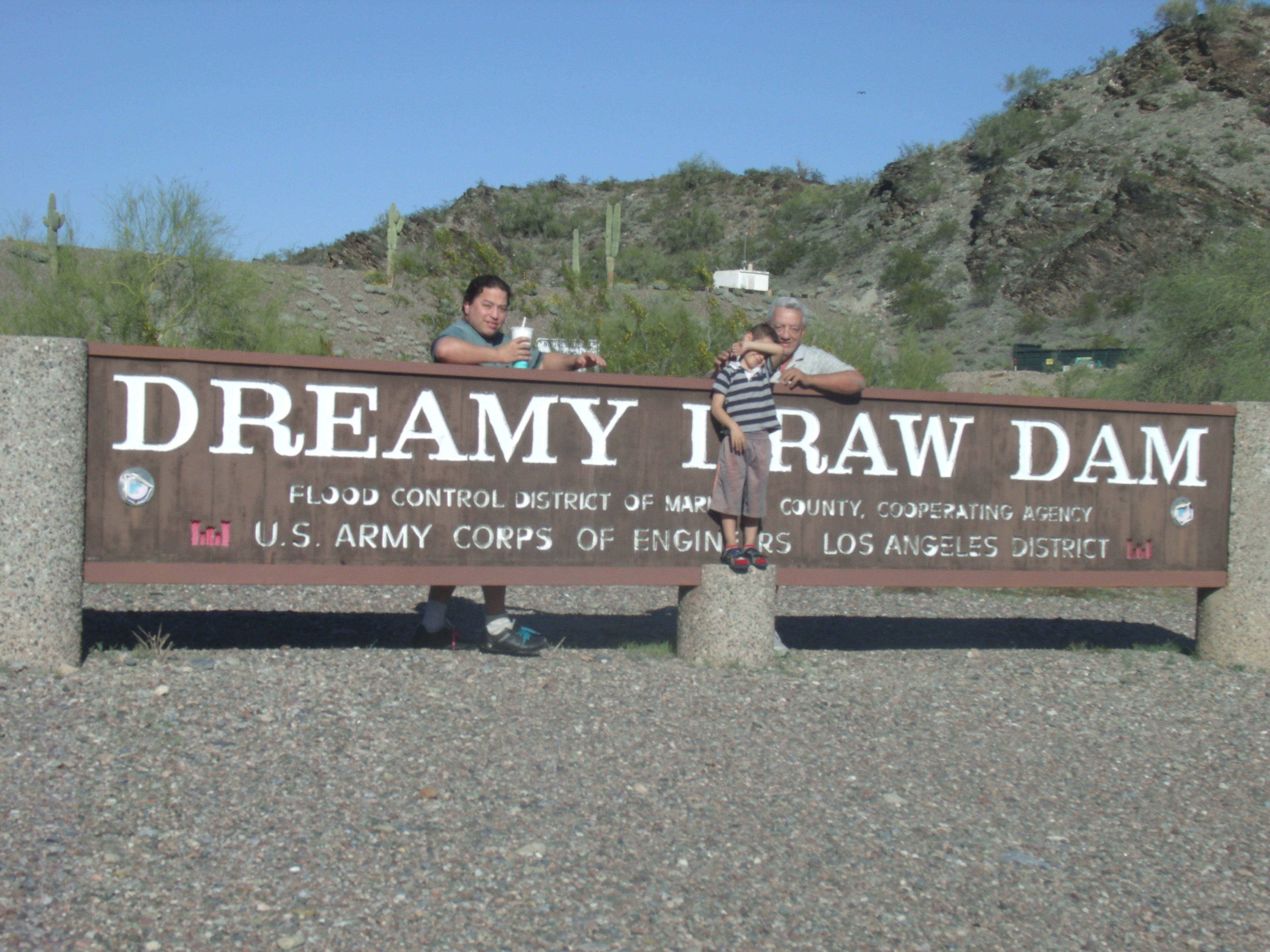 Dreamy Draw Dam is a compacted earthfill flood control dam and was the first of four dams built under the Phoenix, Arizona, and Vicinity plan. According to local legend Dreamy Draw Dam is supposedly a UFO crash site where in 1947 the Army Corp. of Eng. used rock to cover up the crash site. Dreamy Draw Dam is located in the Phoenix Mountain Reserves at approximate 24th Street alignment, just east of Northern Avenue.